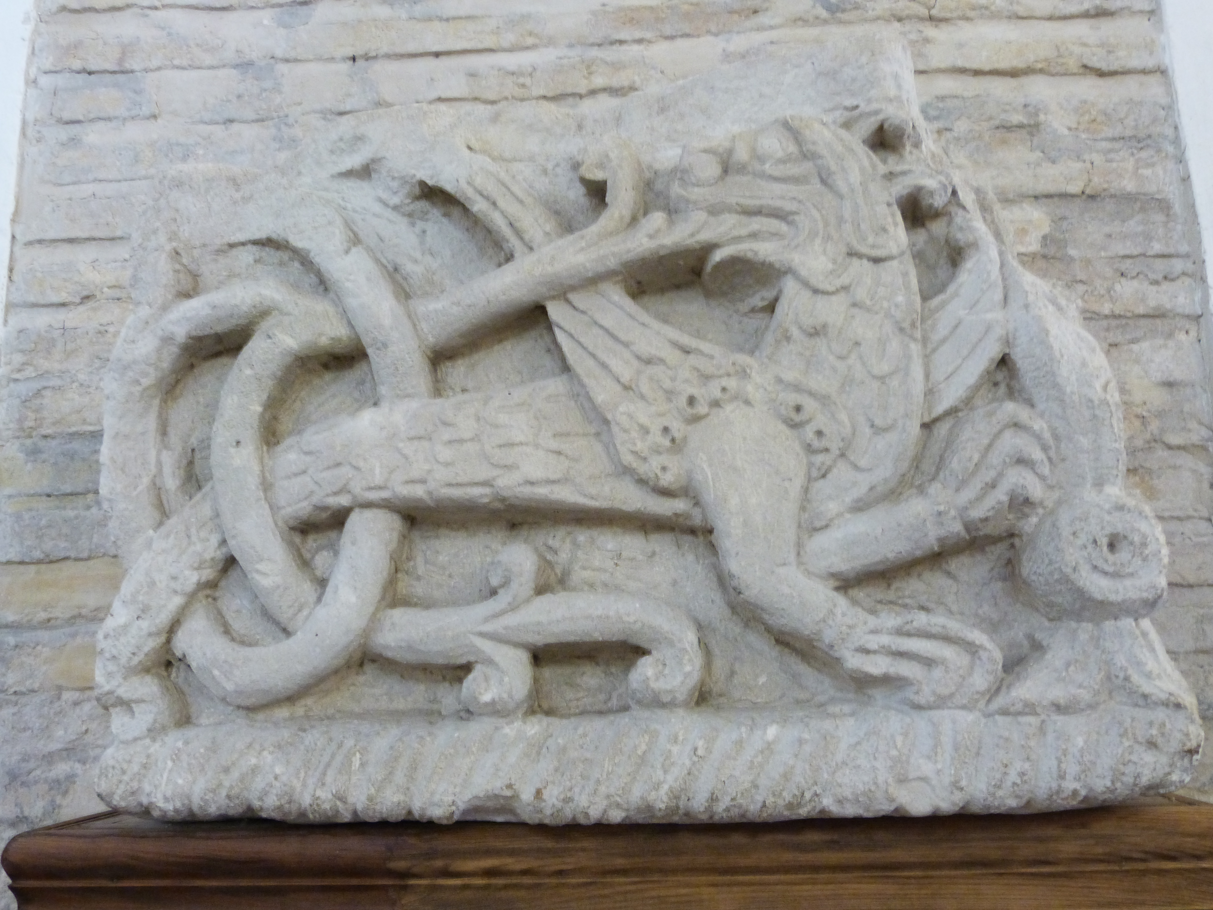 12th century capital with the image of Simargl from the Cathedral of Boris and Gleb (Chernigov)